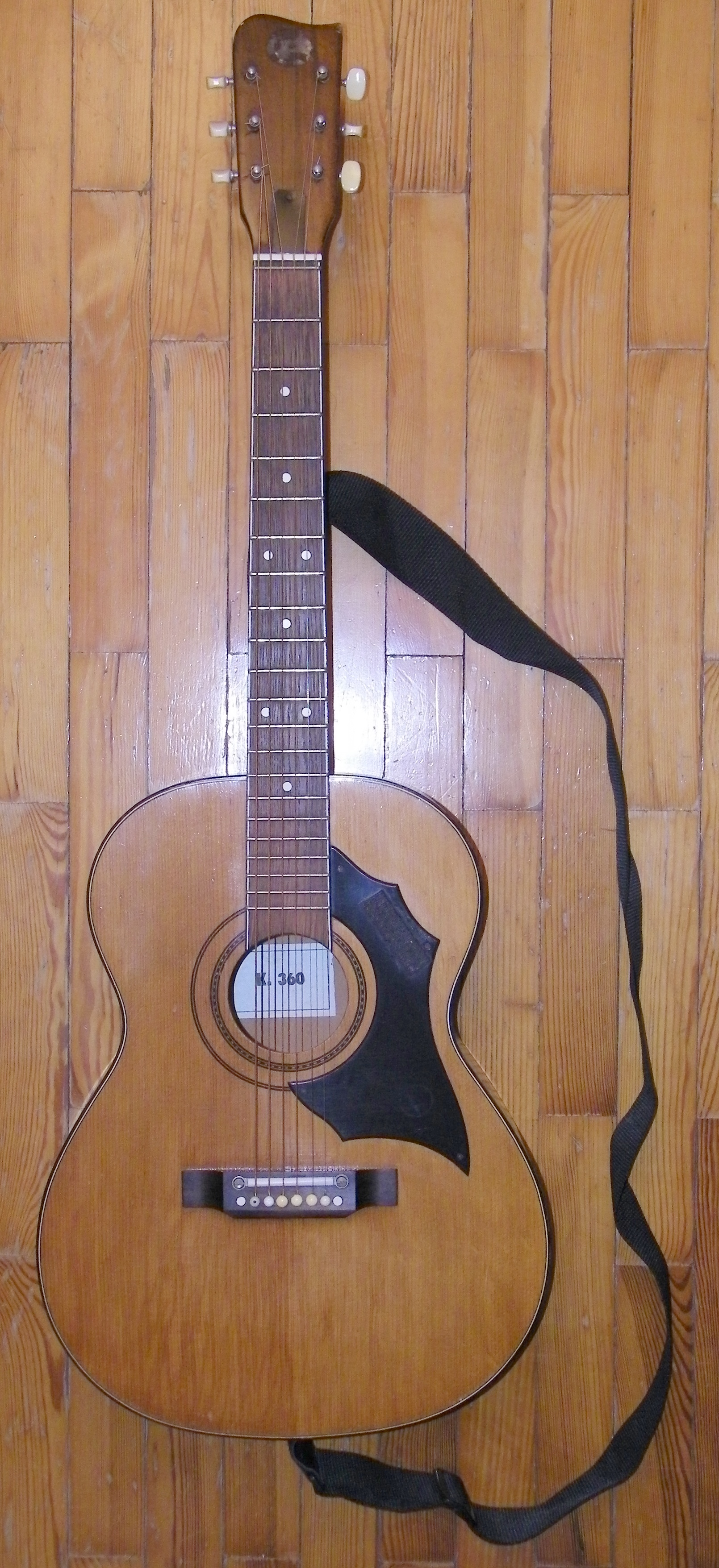 "K. 360" steel string 4/4 acoustic guitar by Kay Musical Instruments 21 frets, 25.3" / 64.2 cm scale length, right handed, neck joint at 14.th fret, flattop, solid top, zero fret, height adjustable saddle, scratchplate, plastic dot inlays, neck binding, body purfling, set neck, truss rod "Made in GDR" (East Germany)